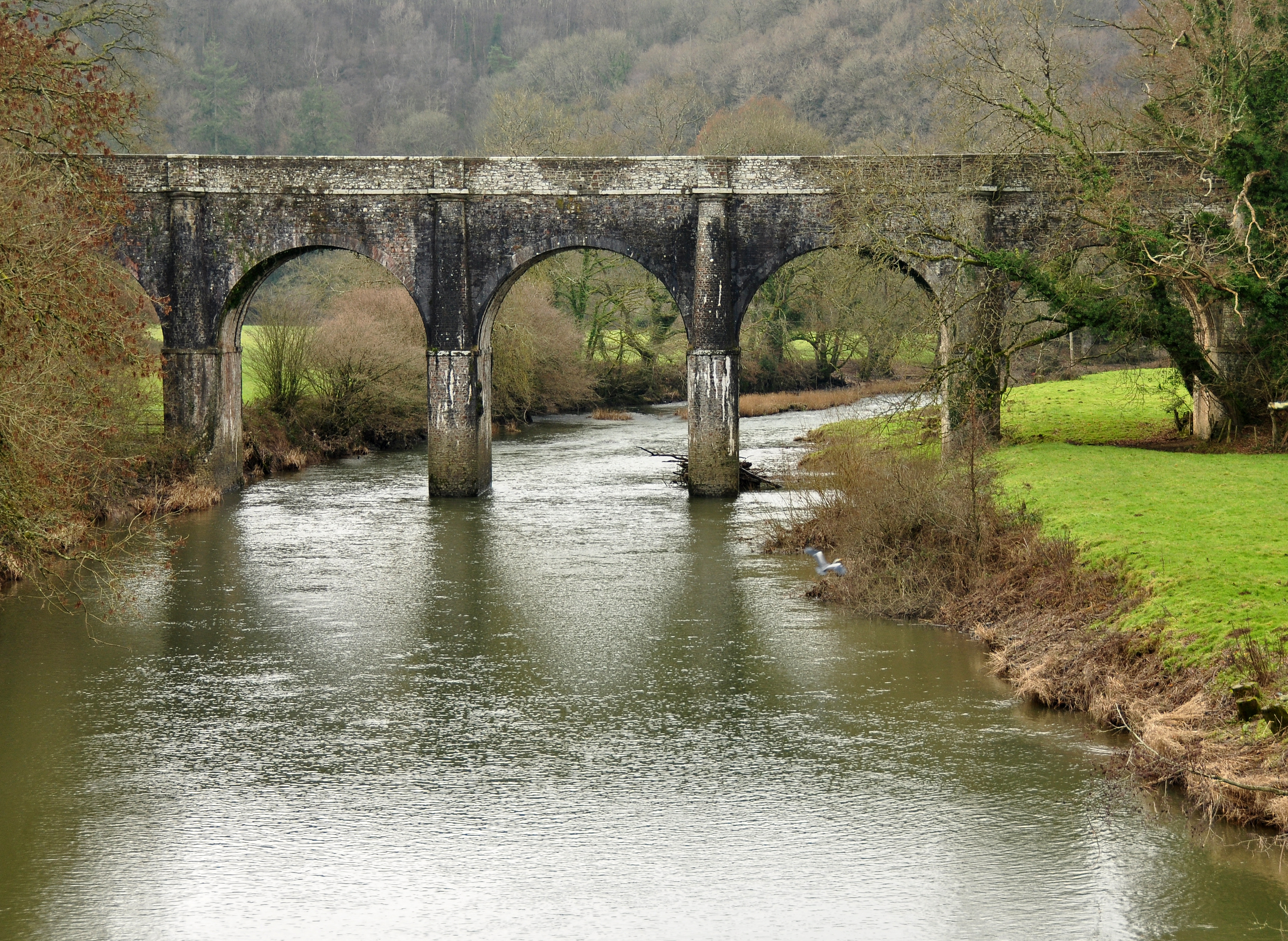 The Beam Aqueduct across the River Torridge in Devon, seen from the railway viaduct downstream.